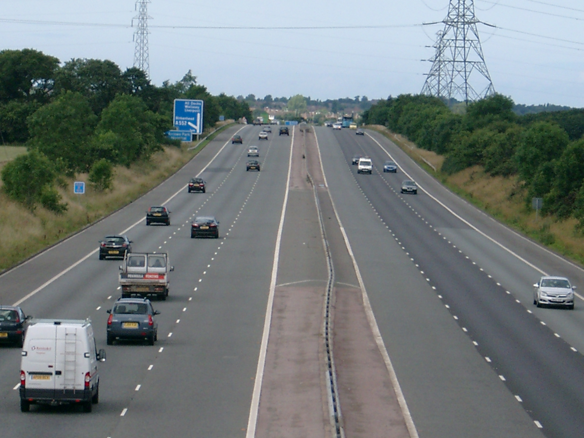 The M53 motorway at around 1:15pm on a Monday afternoon, looking northbound from a footbridge (location shown on at [1]) between junctions 3 & 4 at Storeton, Wirral, UK.